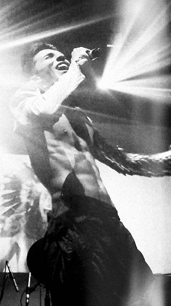 Alek Sandar performing at the NMS New York Music Festival, Webster Hall